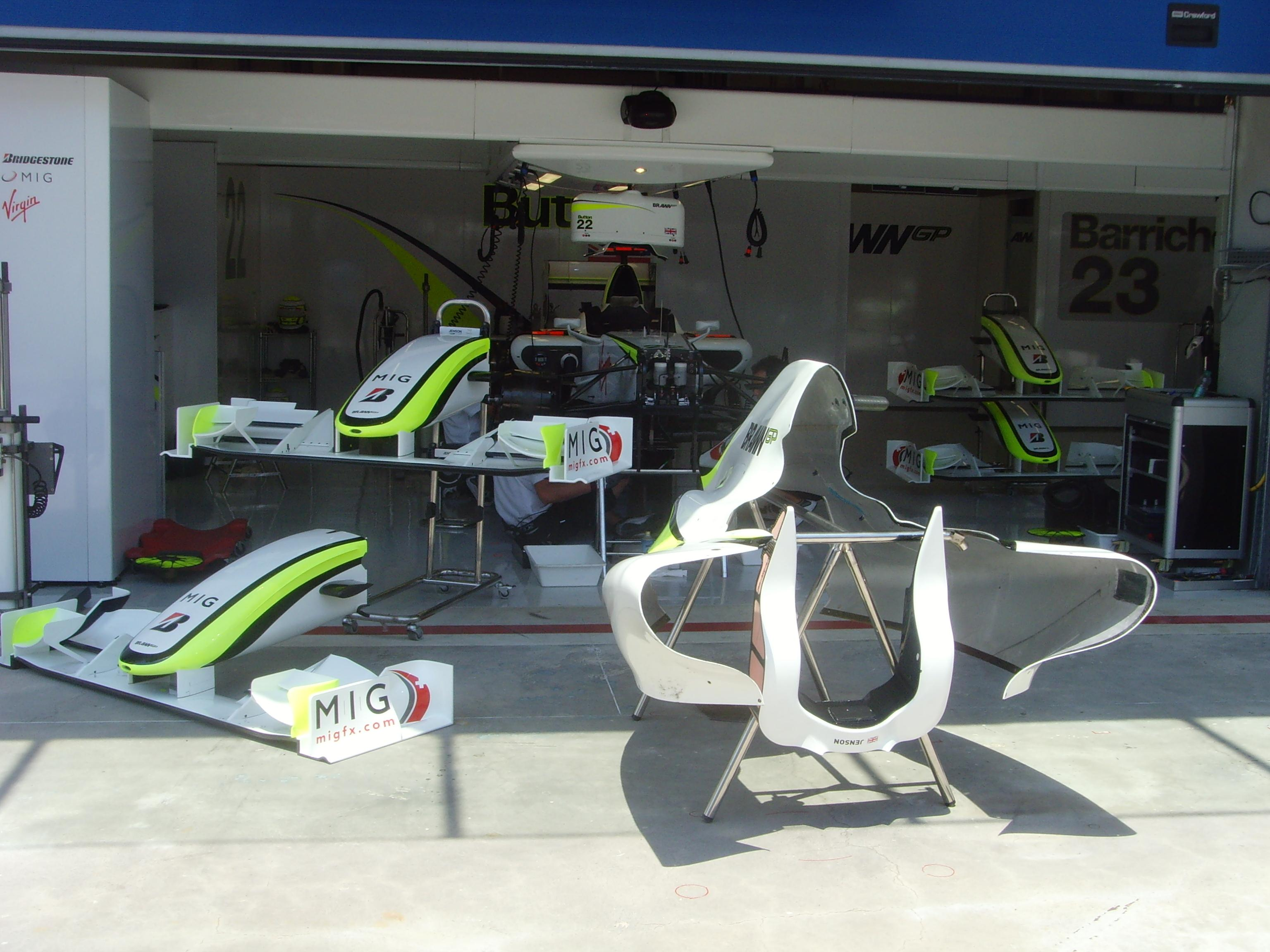 Brawn BGP 001 front wings and motor hood in front of Brawn GP garage with Jenson Button's car on background between two practice sessions on Friday of 2009 Turkish Grand Prix weekend.